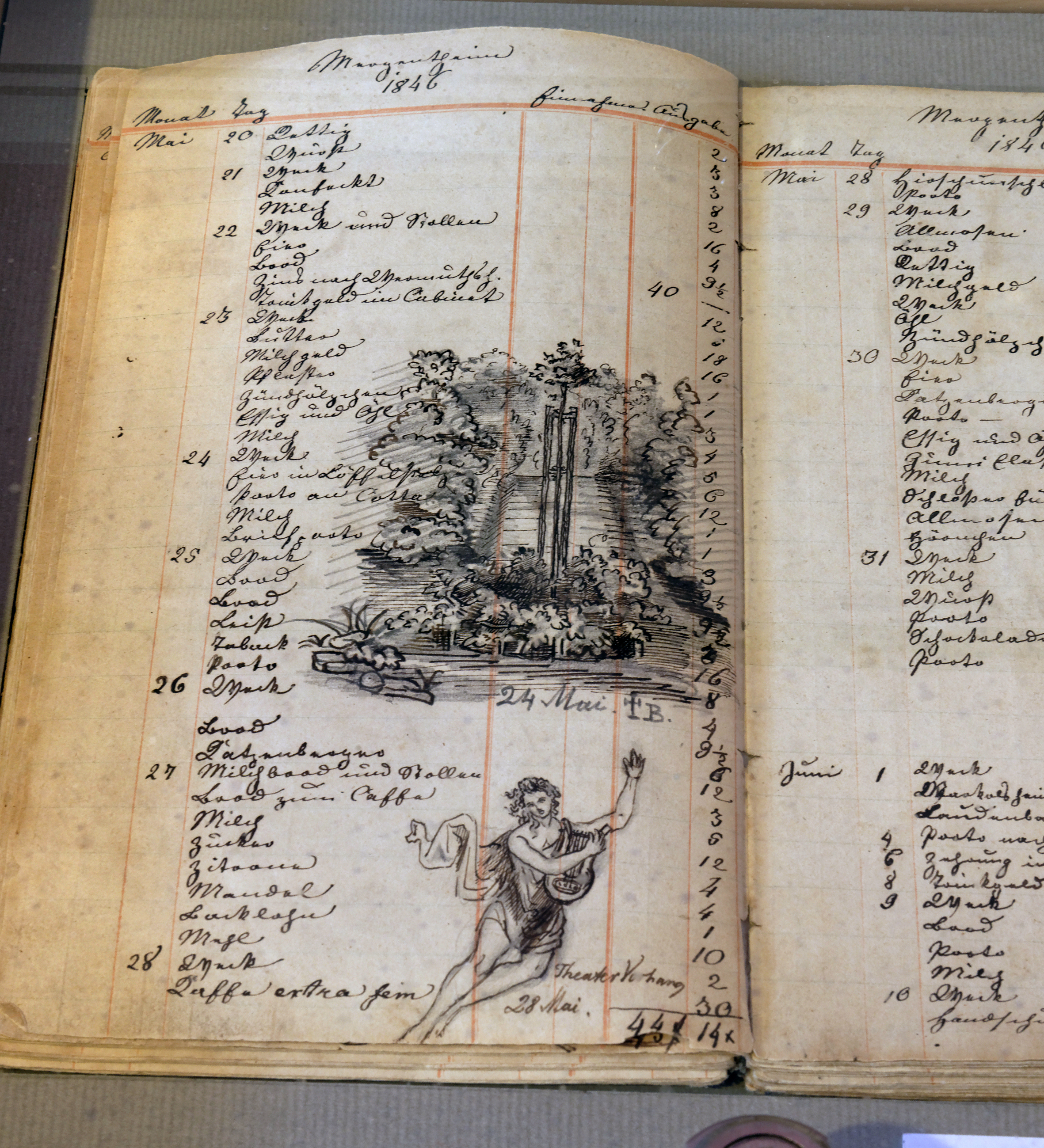 The poet Eduard Mörike lived from 1844 to 1851 in Bad Mergentheim.